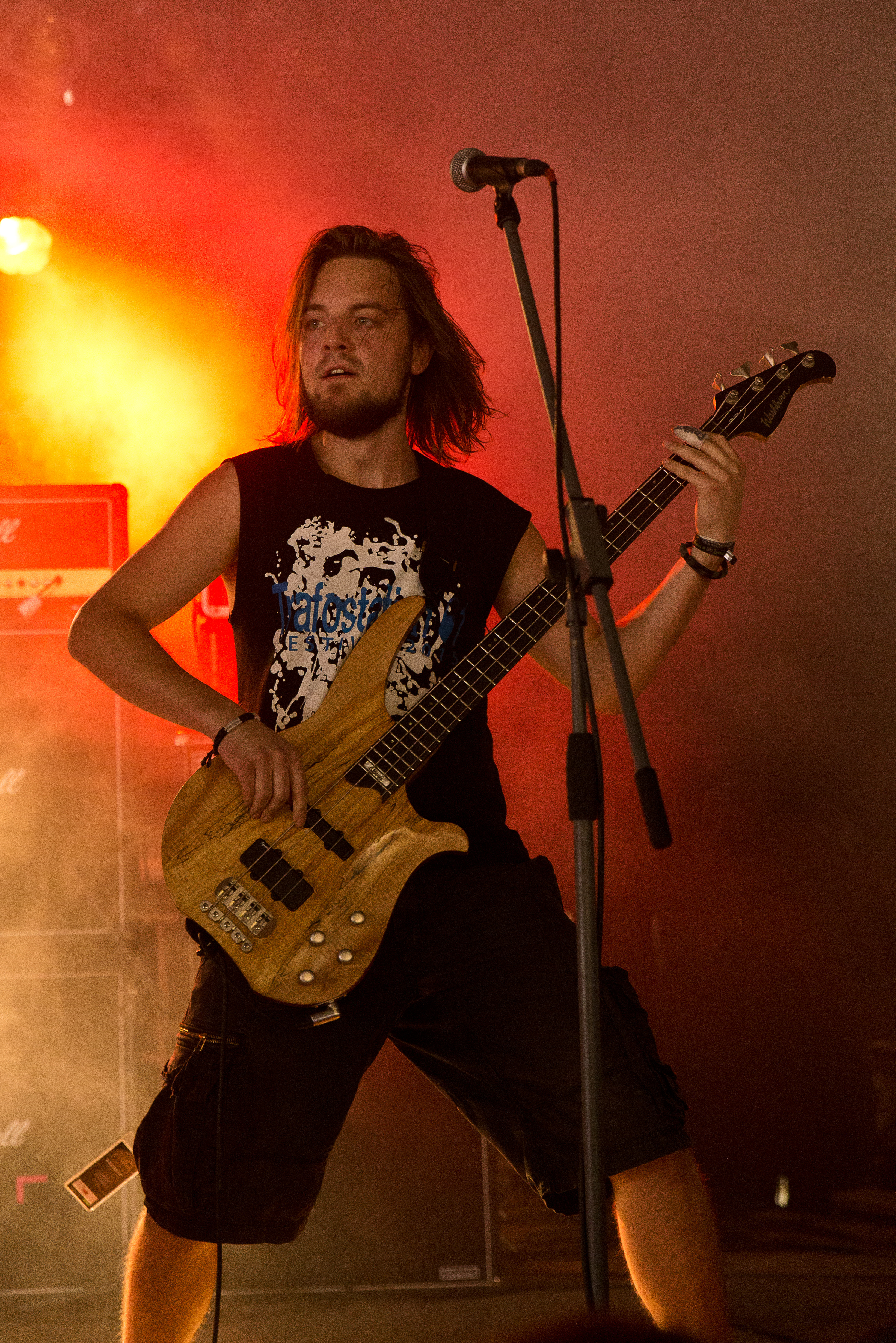 The German thrash metal band Pripjat at the Party.San Open Air 2015 in Obermehler-Schlotheim/Germany.